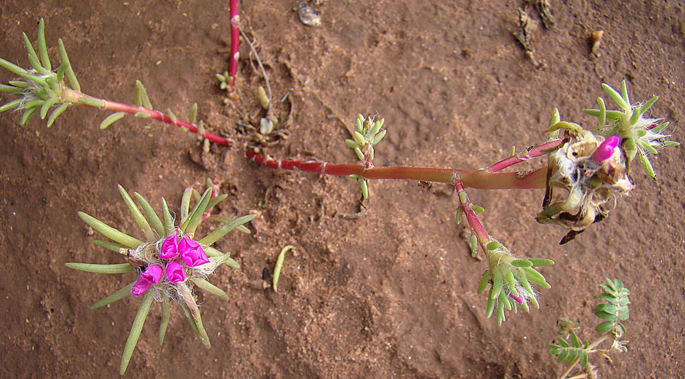 Hairy with pointy leaves, from the dry lands of La Rioja, Argentina. In context at